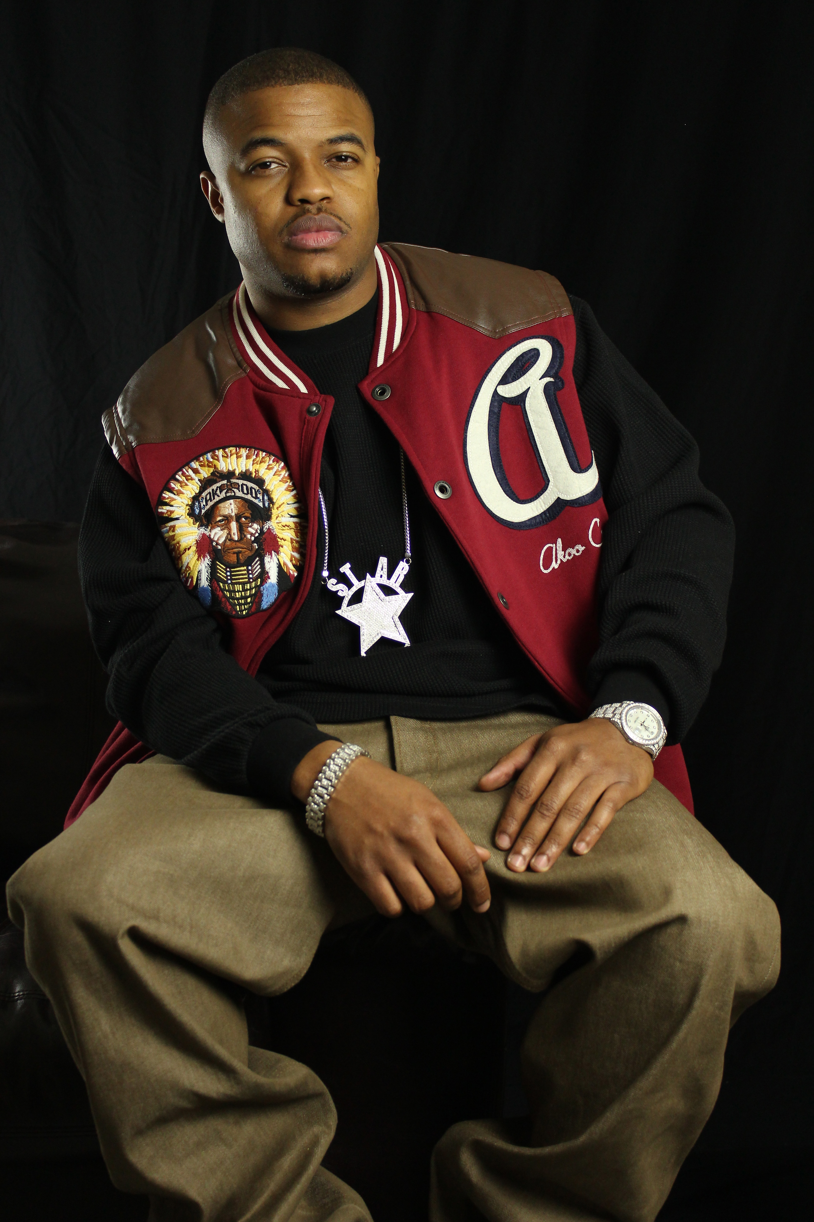 Mr. Lucci at photo shoot